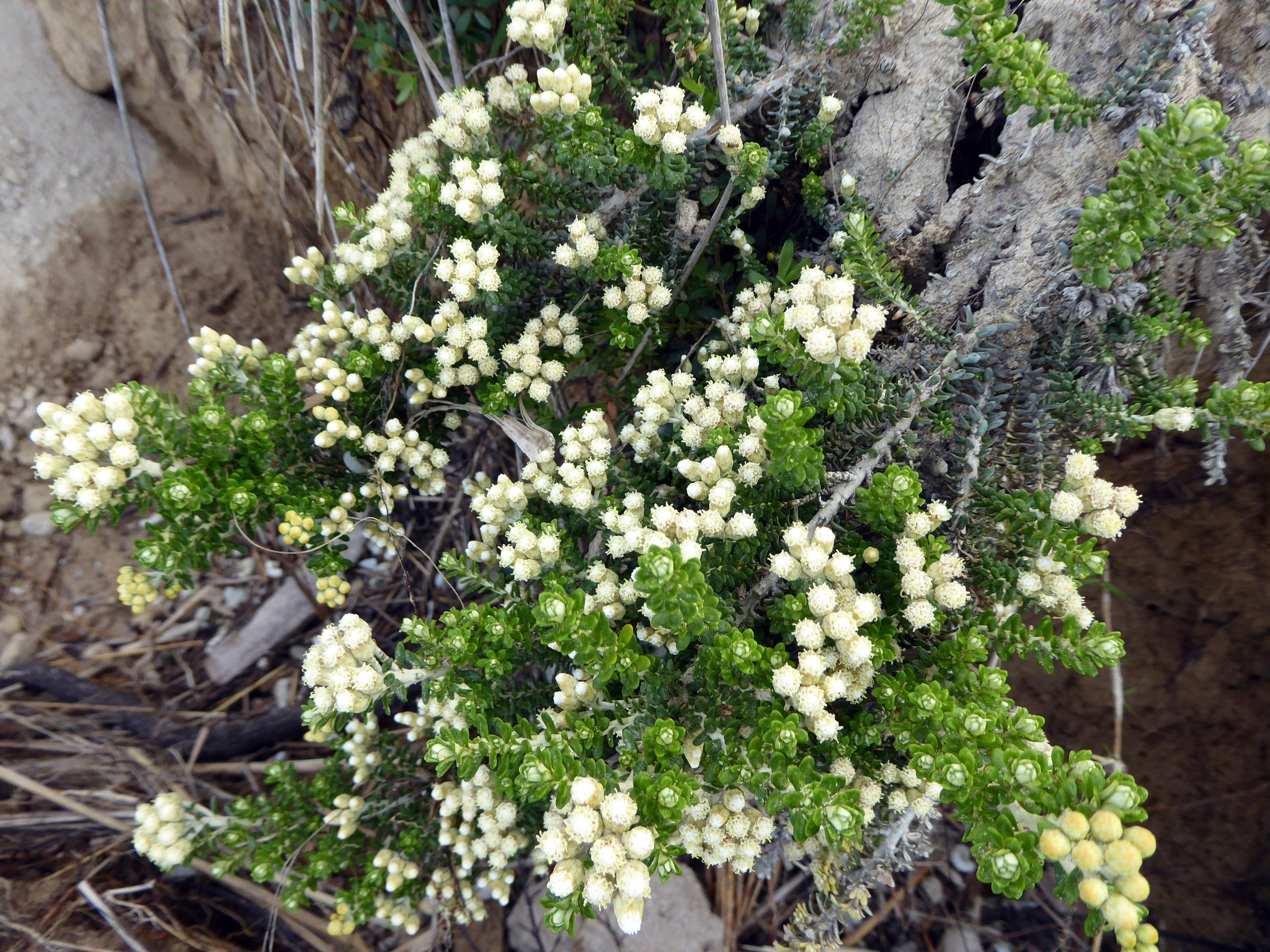 Ozothamnus leptophyllus (Q13937549) by Peter James de Lange (Q21389219) via iNaturalist